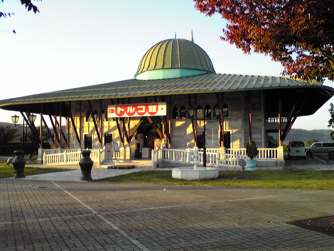 Toruko kan (Turkish Pavilion) at Michinoeki Sagae in Sagae City, Yamagata Prefecture, Japan